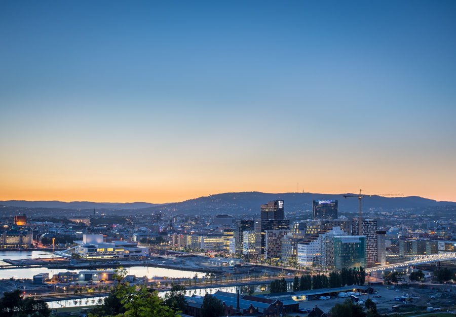 Sun has just set on Oslo. Looking at Bjørvika with the Opera house and Bar code skyline. Shot from Ekebergåsen.